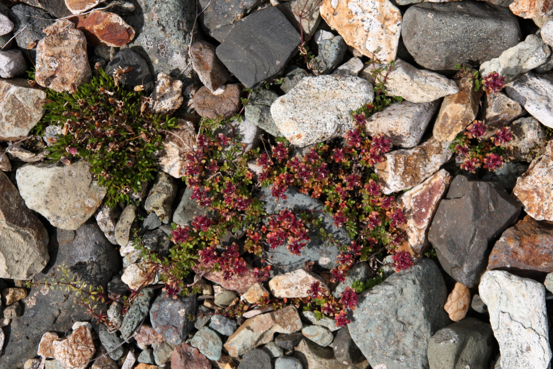 Plants in Lonsoraefi area in Iceland: Sea Campion (Silene uniflora, top left) and wild thyme / Mother-of-Thyme (Thymus praecox var. arcticus, bottom right).